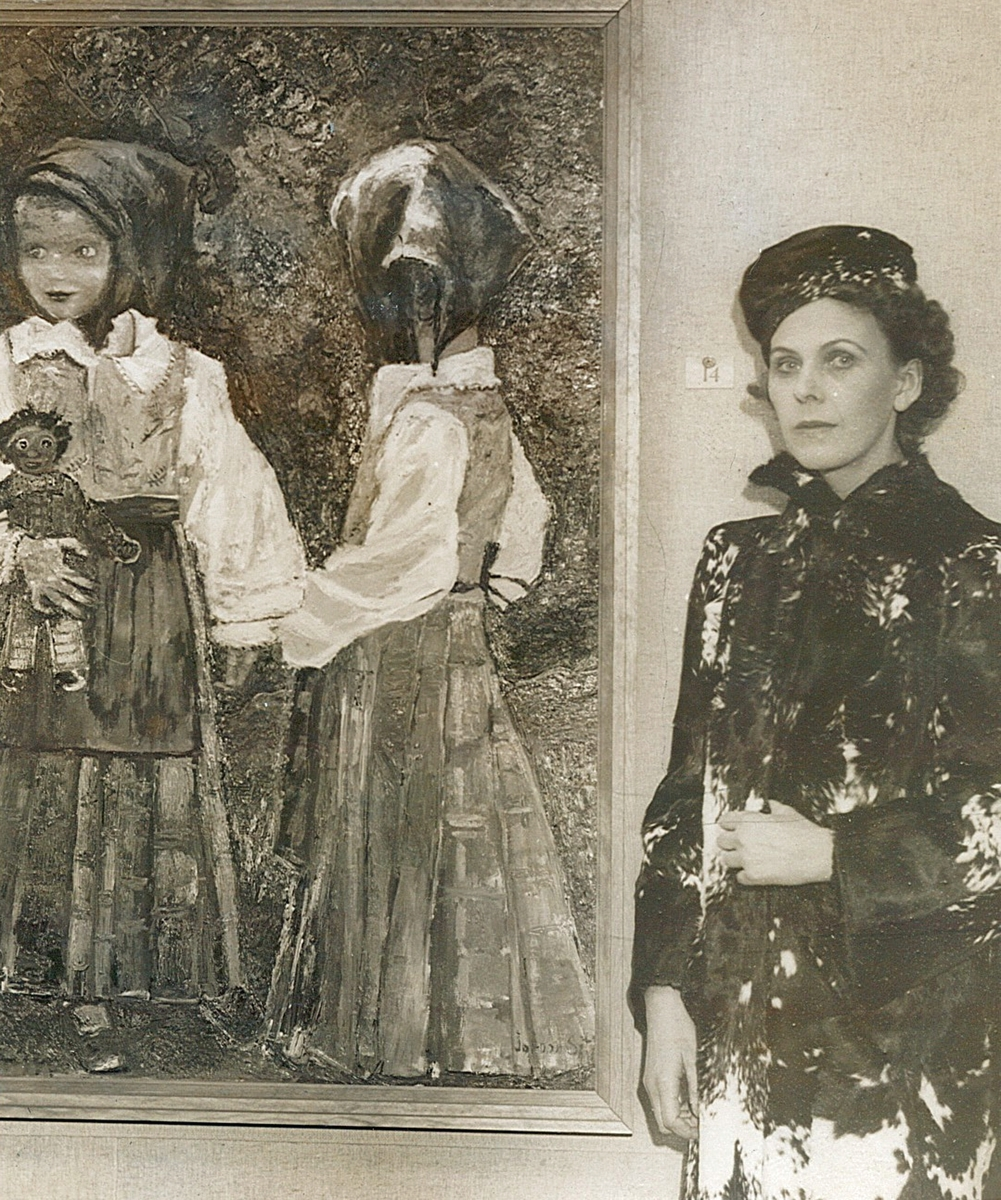 Norwegian artist Joronn Sitje (1897–1982) around 1935-40.